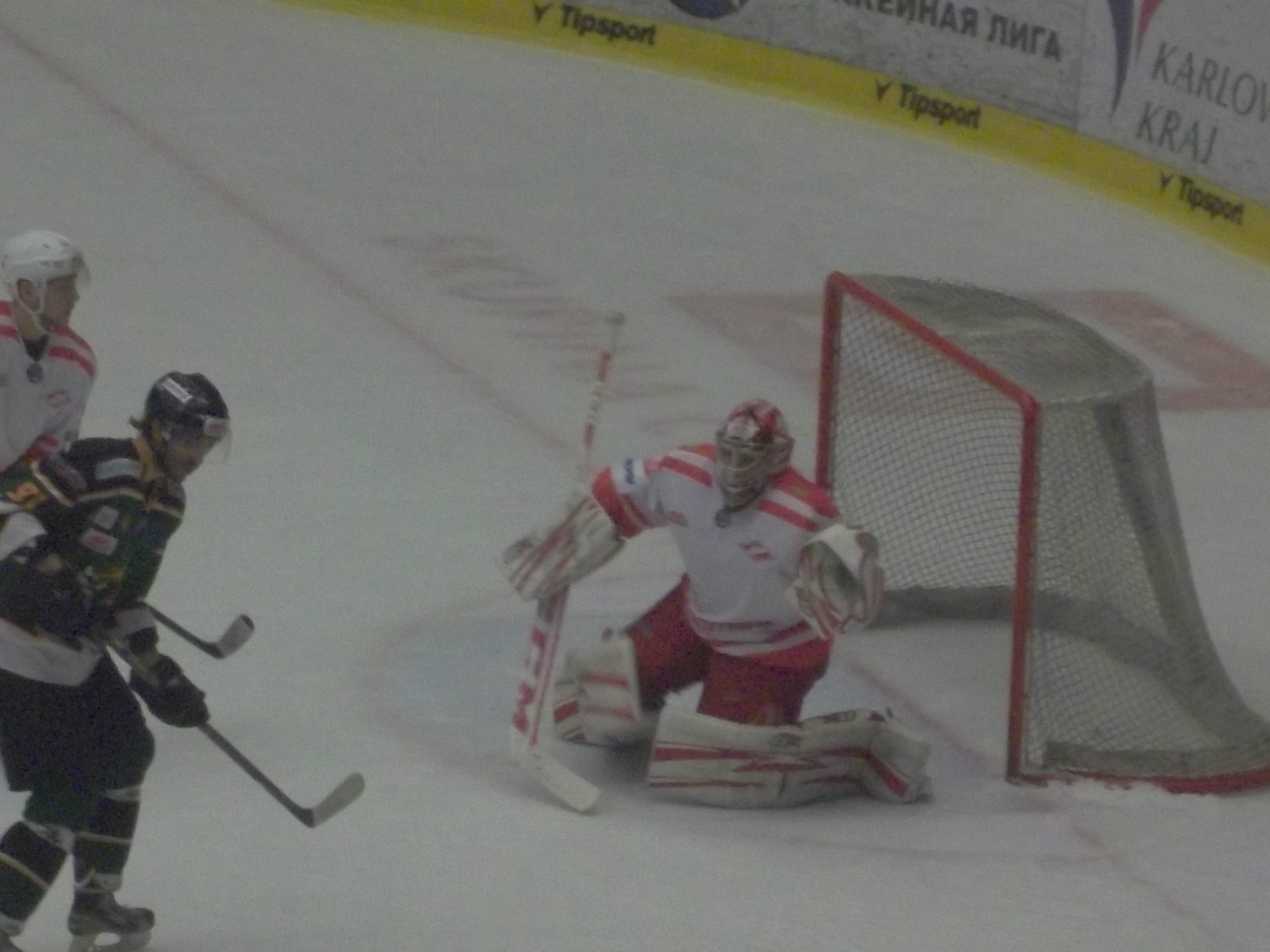 vlčí smečka Igor Šesťorkin